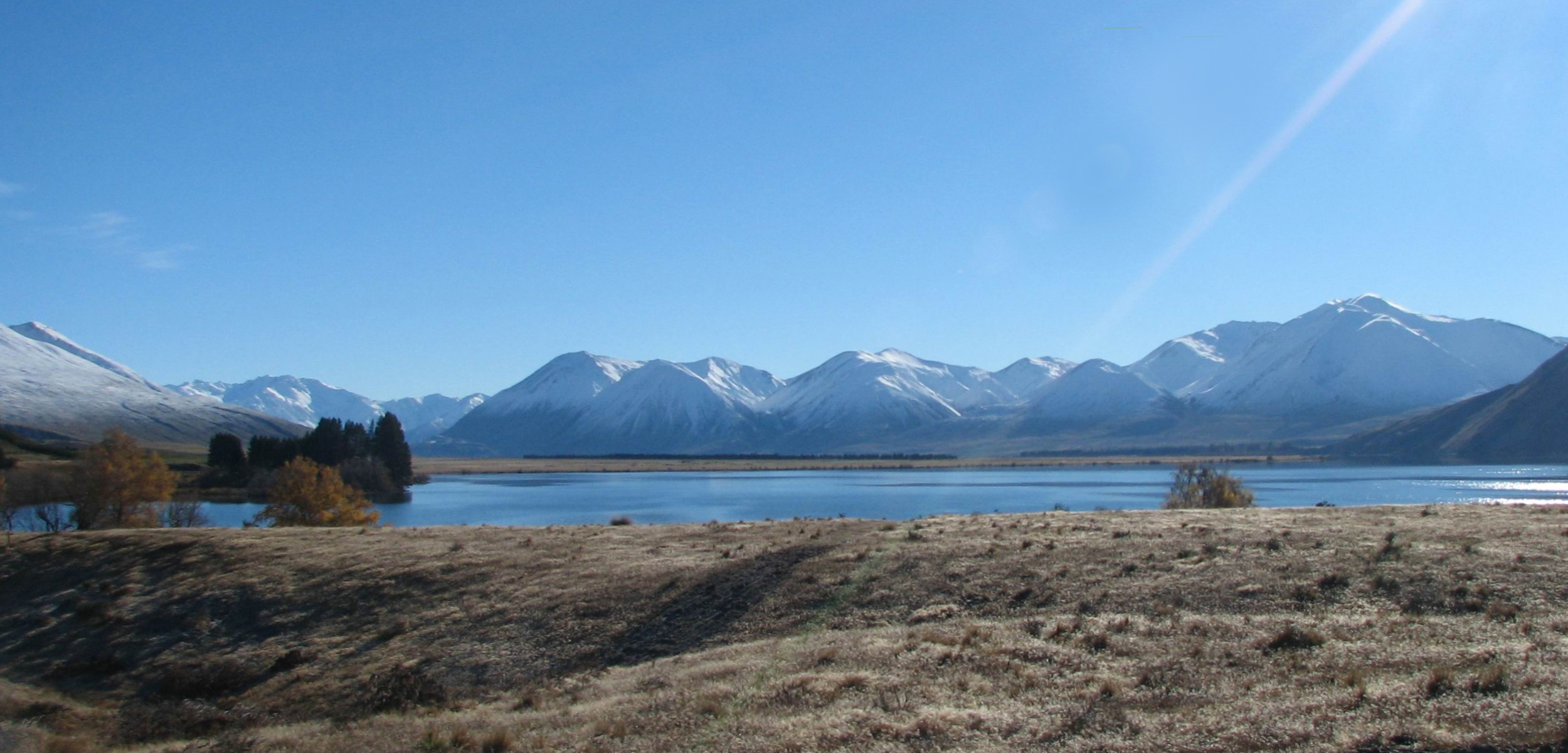 Lake Heron in New Zealand looking north during winter.